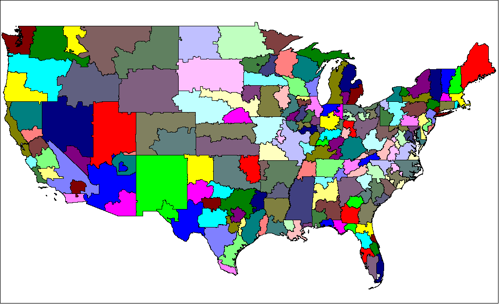 Map of the LATA boundaries for the US. Created by Rarelibra 17:57, 24 July 2006 (UTC) using MapInfo Professional v8.5 for public domain use.